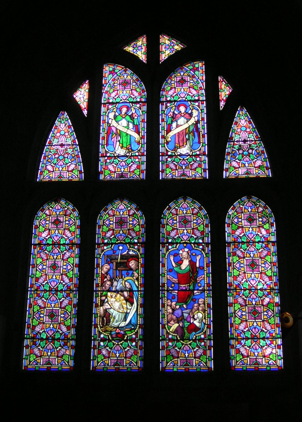 Church of England parish church of Saints Peter and Paul, Great Missenden, Buckinghamshire: 19th-century stained glass window by William Wailes